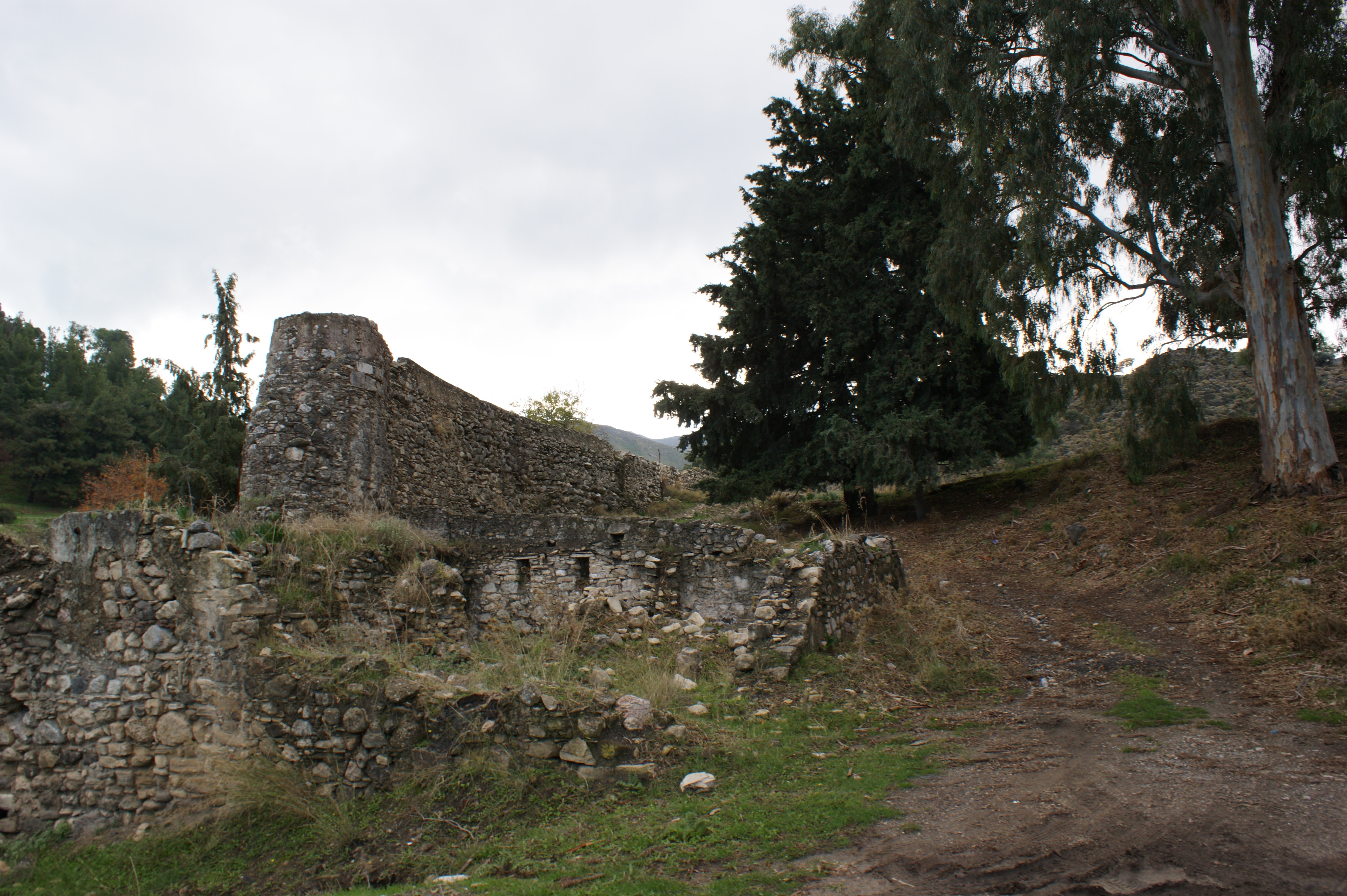 Artificial stone wall near the Asklepieion on the road from Kos to Zia on the Greek island of Kos (Κως).